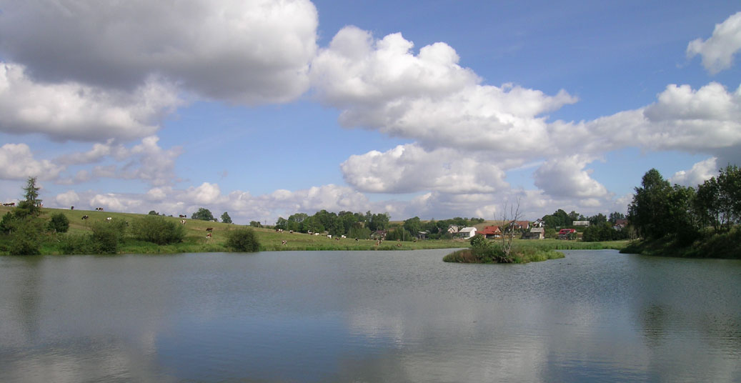 lake in Wolbrom, Poland